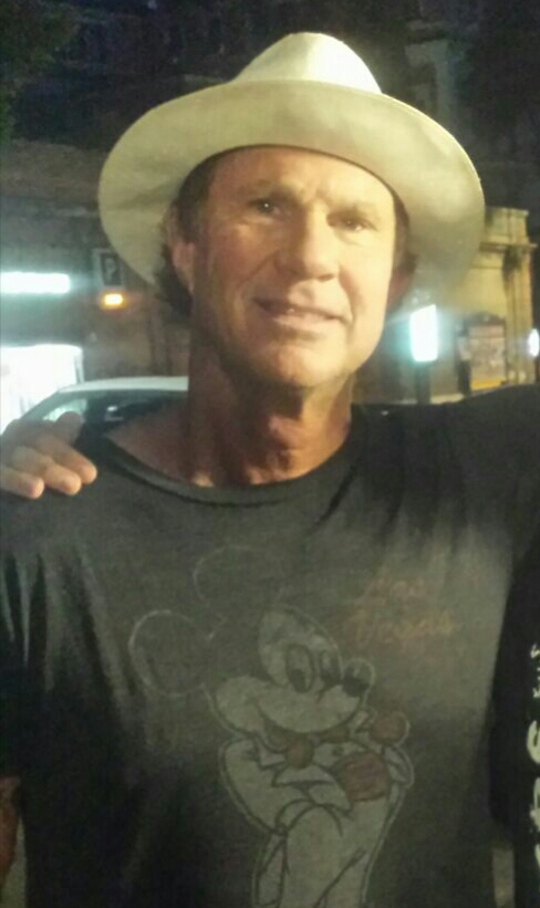 Chad Smith in Rome in 2017